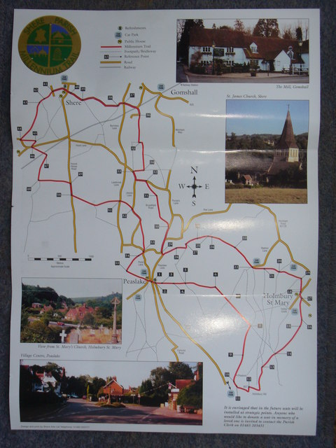 Shere Parish Millennium Trail Map showing the waymarked trail that connects Shere with its neighbouring villages within the parish - Gomshall, Holmbury St Mary and Peaslake.